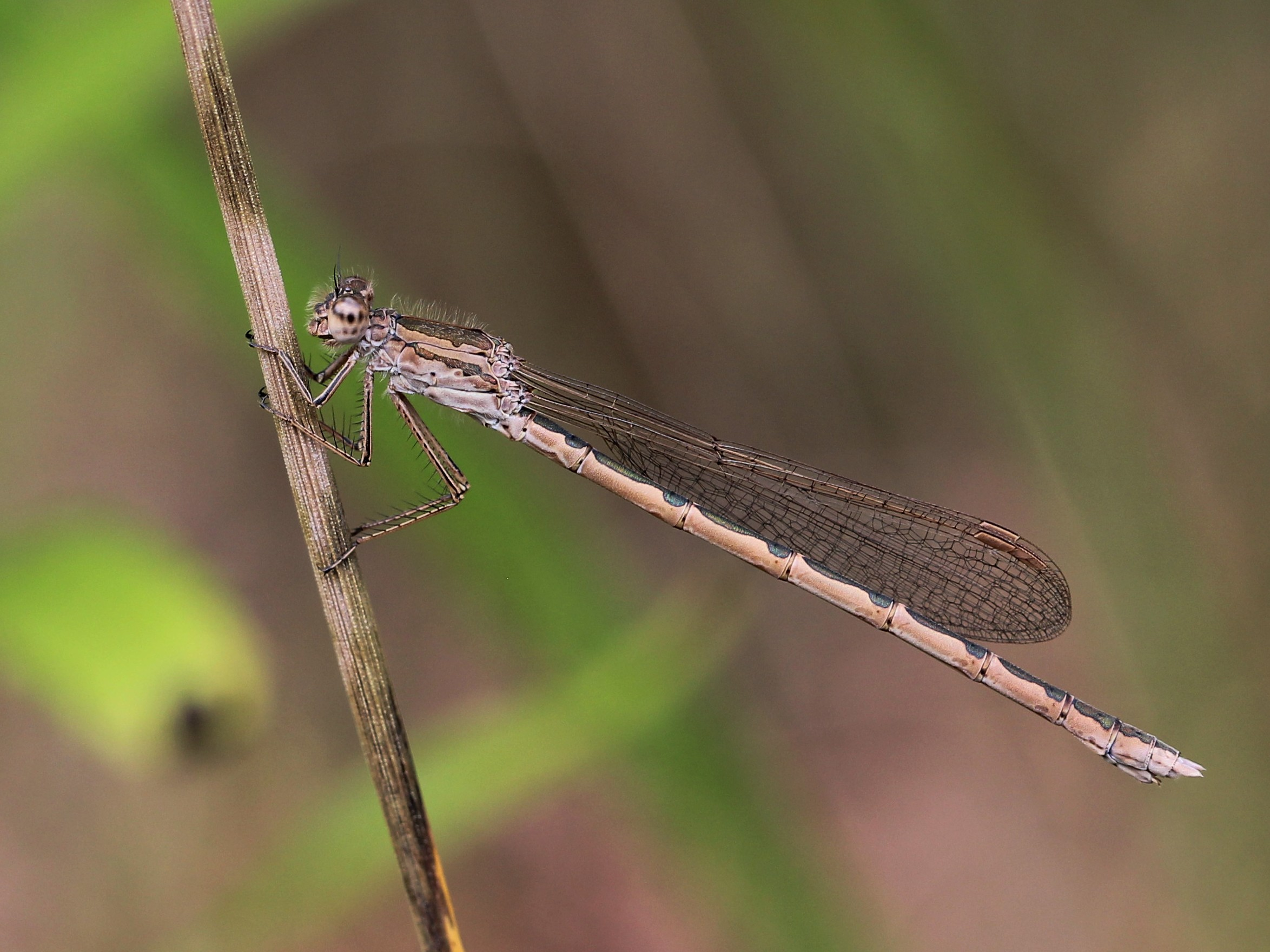 The Siberian winter damselfly (Sympecma paedisca). Damselfly from Vangaži, Latvia. It is sitting on old grass stem. Found in spruce forest near little swamp. Colours: brown, black, white, blue, green.